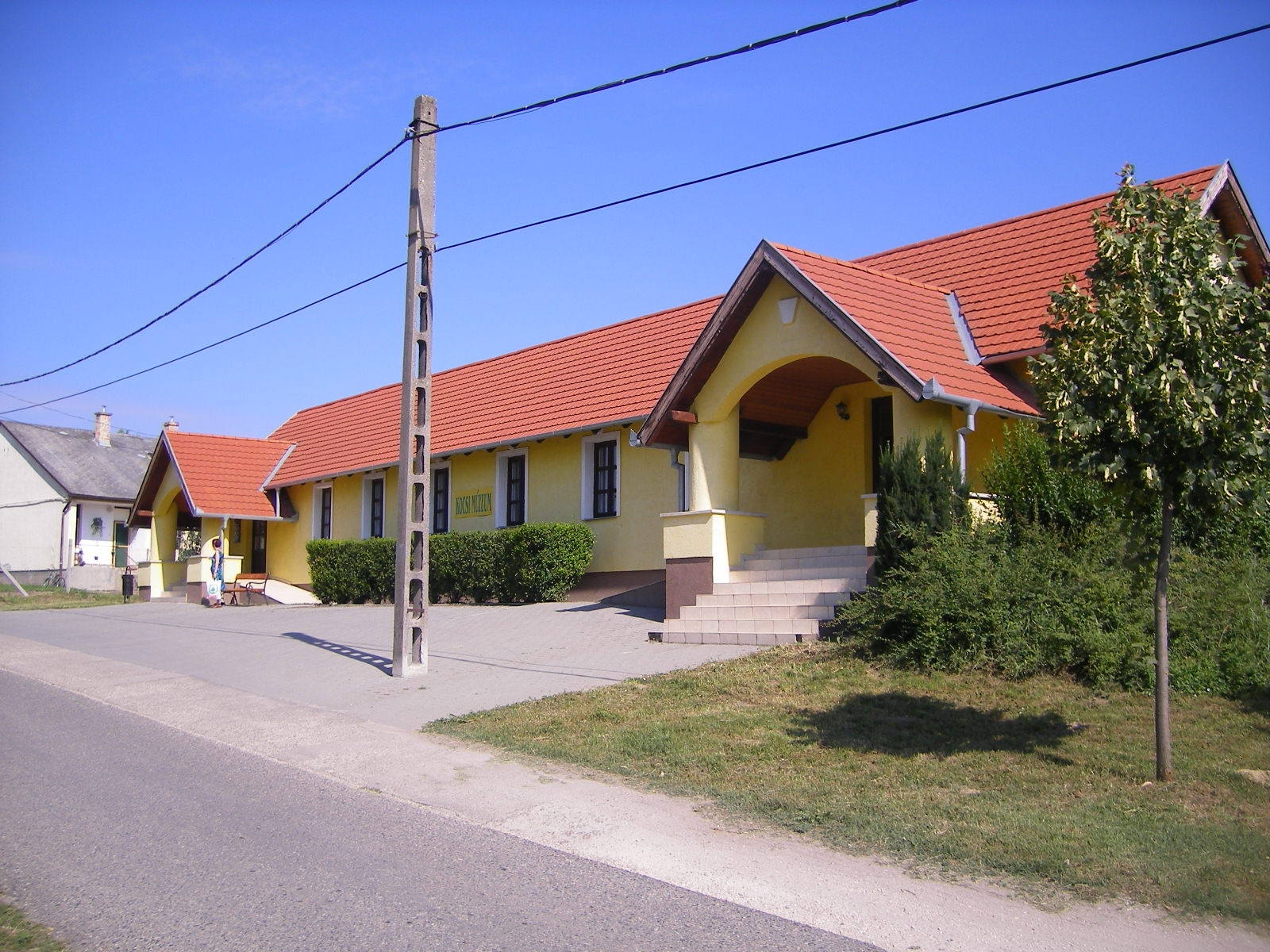 Kocs - museum